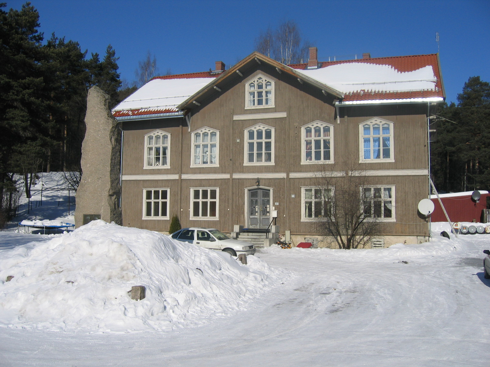 Sagatun Folk high school, Hamar, Hedmark, Norway. Sagatun were Norways first Folk high school.